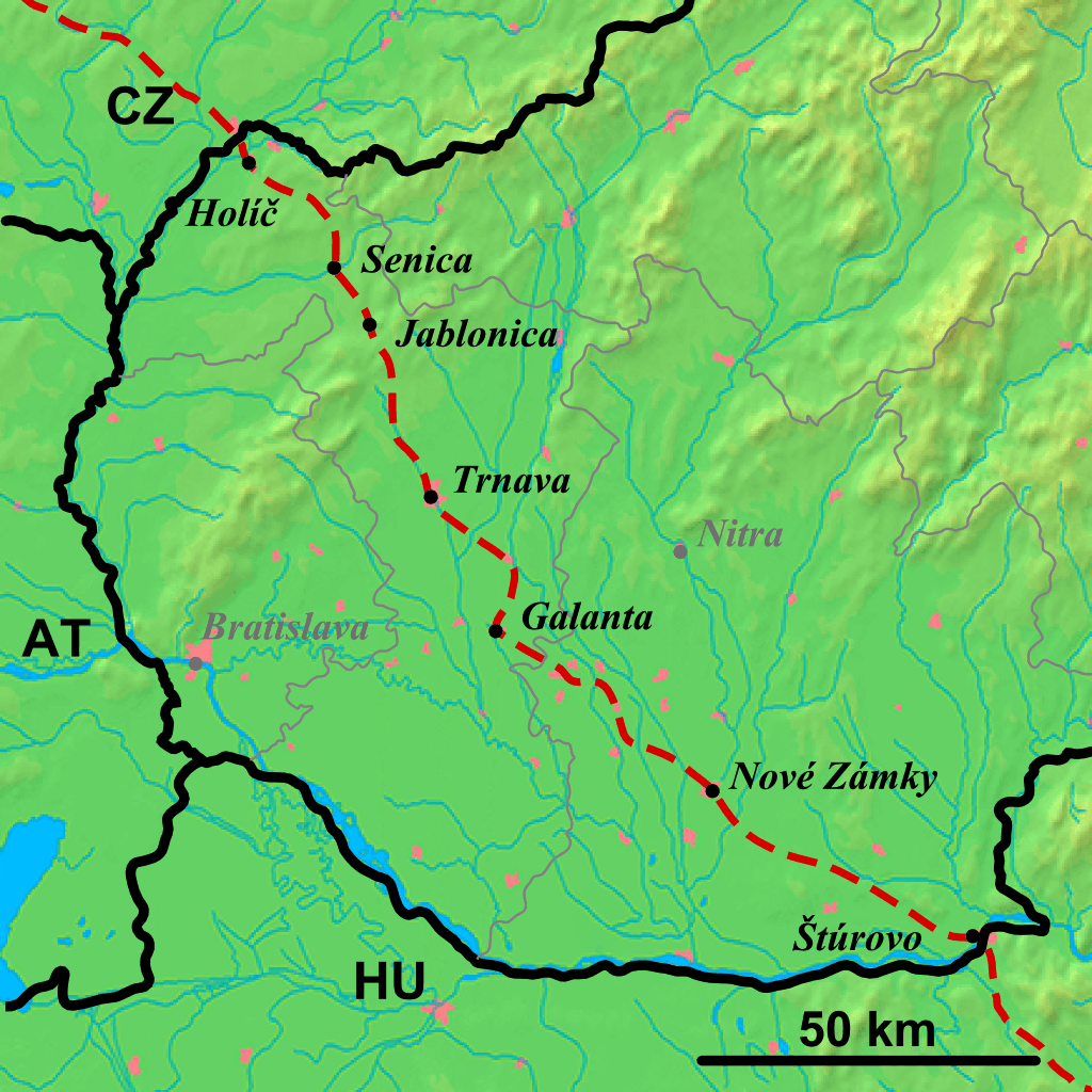 Czech route (Česká cesta, Via Bohemica) historical trade route path within present Slovakia